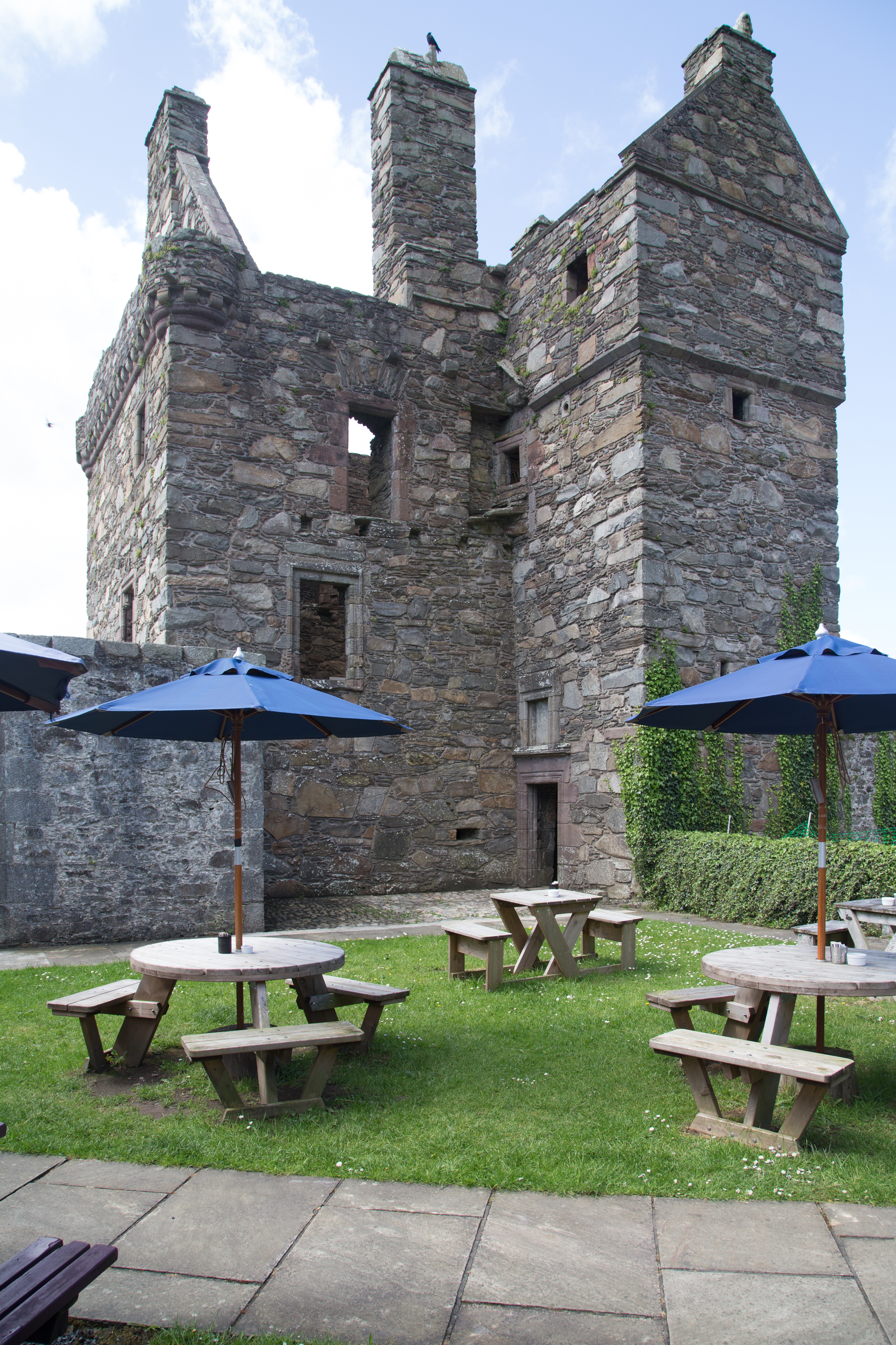 Carsluith Castle Wikidata has entry Q2648610 with data related to this item.